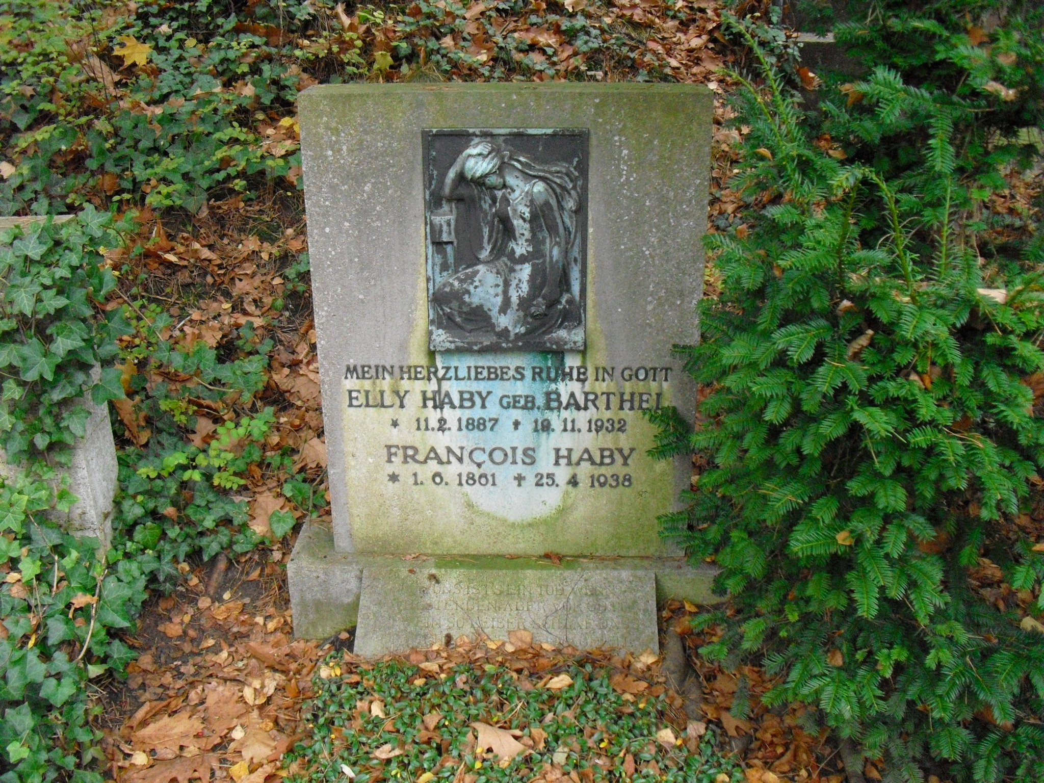 Grave of German hairdresser and entrepreneur François Haby in Friedhof Heerstraße in Berlin-Westend